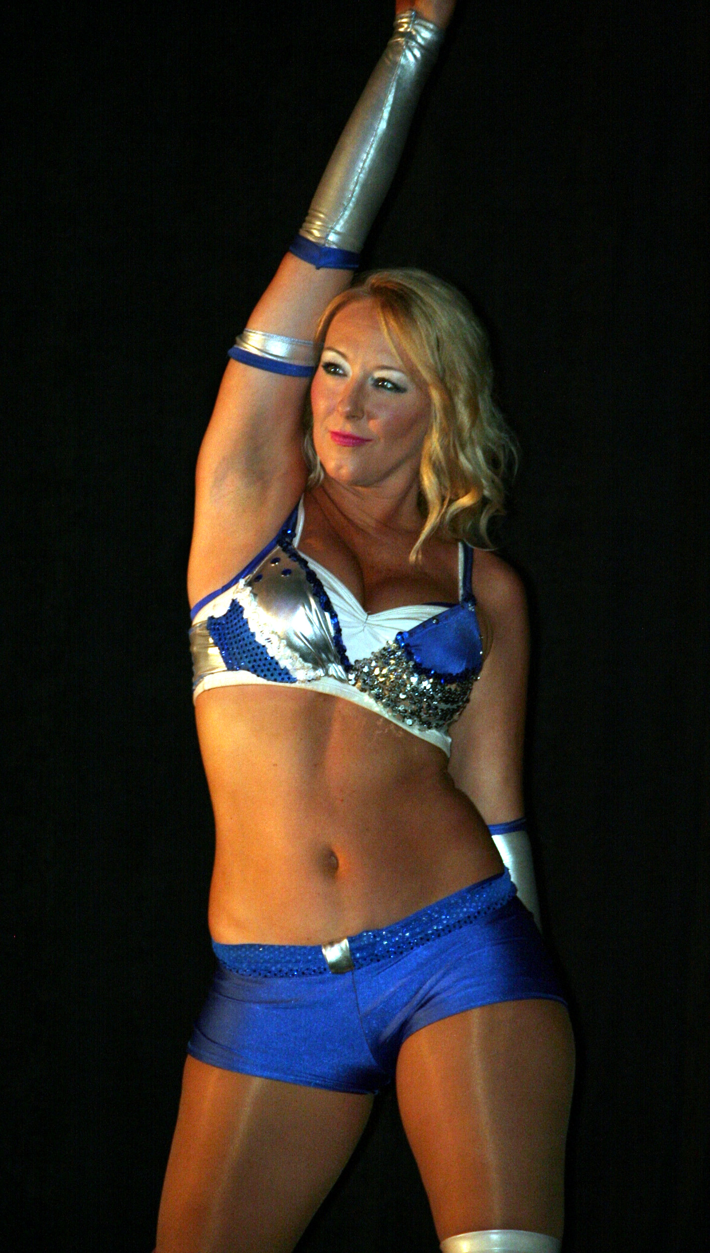 Amber O'Neal at the Queens of Combat show in March 2014.